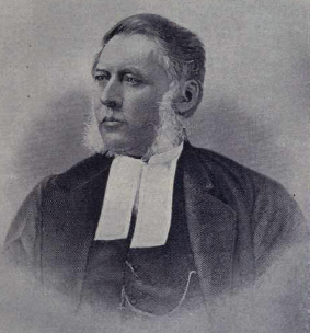 John Campbell Allen Source: The Canadian album : men of Canada; or, Success by example, in religion, patriotism, business, law, medicine, education and agriculture; containing portraits of some of Canada's chief business men, statesmen, farmers, men of the learned professions, and others; also, an authentic sketch of their lives; object lessons for the present generation and examples to posterity (Volume 3) (1891-1896) Creator: Cochrane, William, 1831-1898 Creator: Hopkins, J. Castell (John Castell), 1864-1923 Publisher: Brantford, Ont. : Bradley, Garretson & Co. Date: 1891-1896